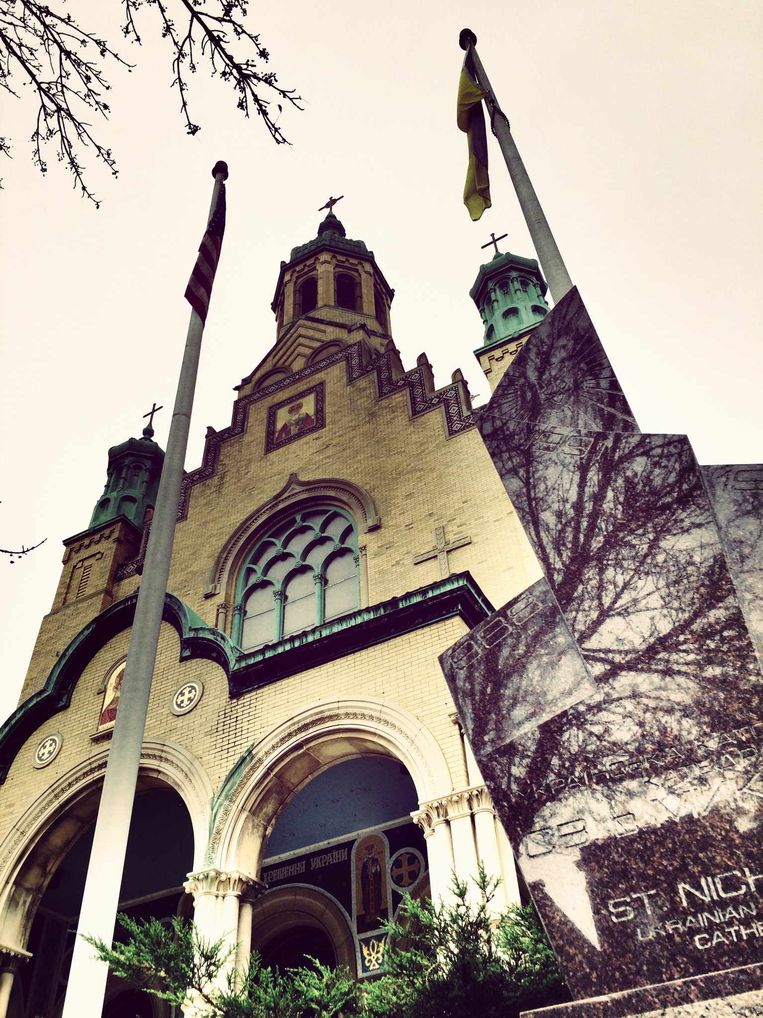 On the defensive Chicago Architecture Autumn Church at St. Nicholas Ukrainian Catholic Cathedral